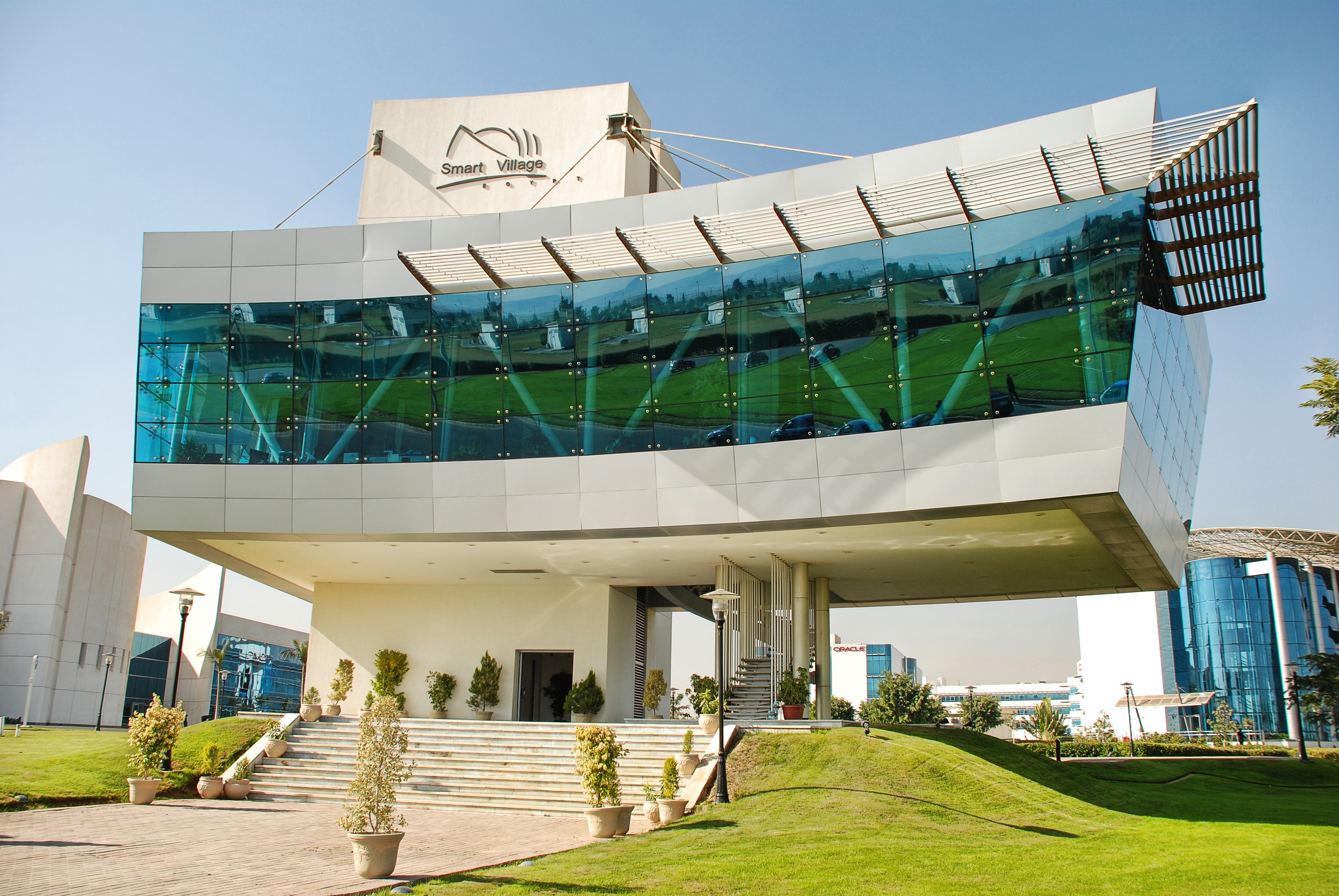 The Pavilion